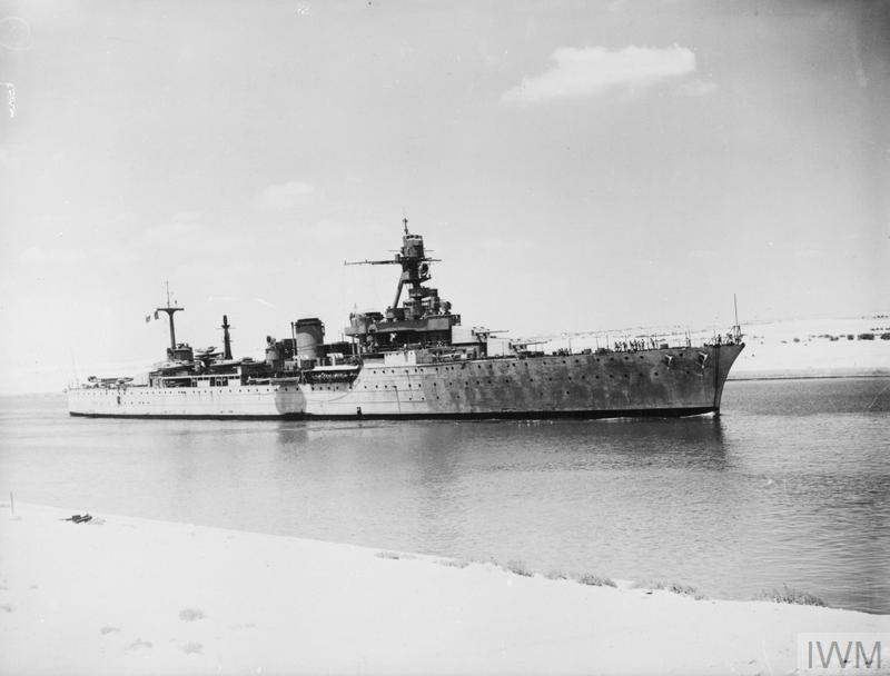 FRENCH FLEET DEPARTURE FROM ALEXANDRIA. 23 JUNE 1943, SUEZ CANAL. The French cruiser DUGUAY TROUIN passing through the Suez Canal towards Suez Bay.